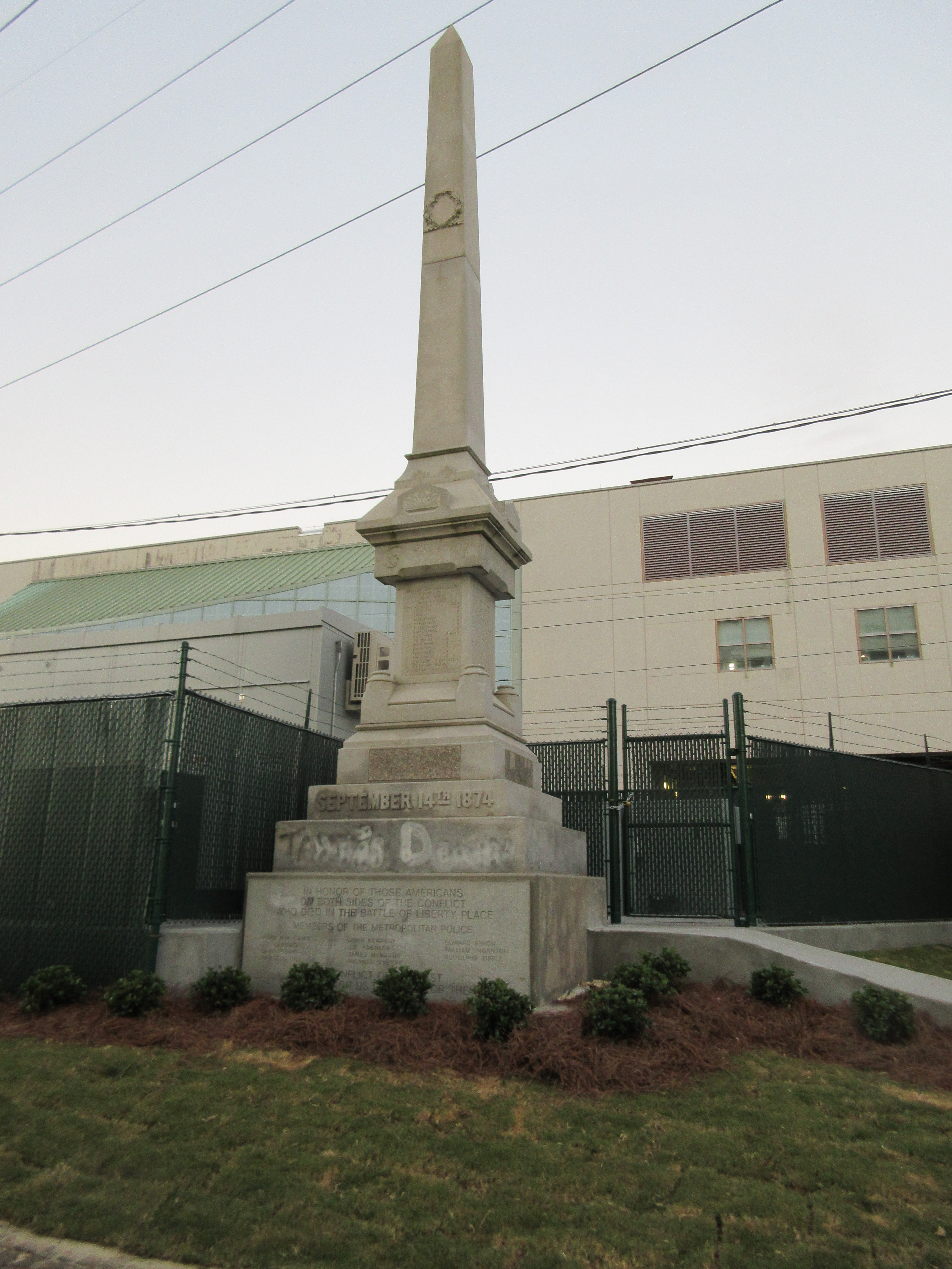 Battle of Liberty Place monument, New Orleans, Louisiana